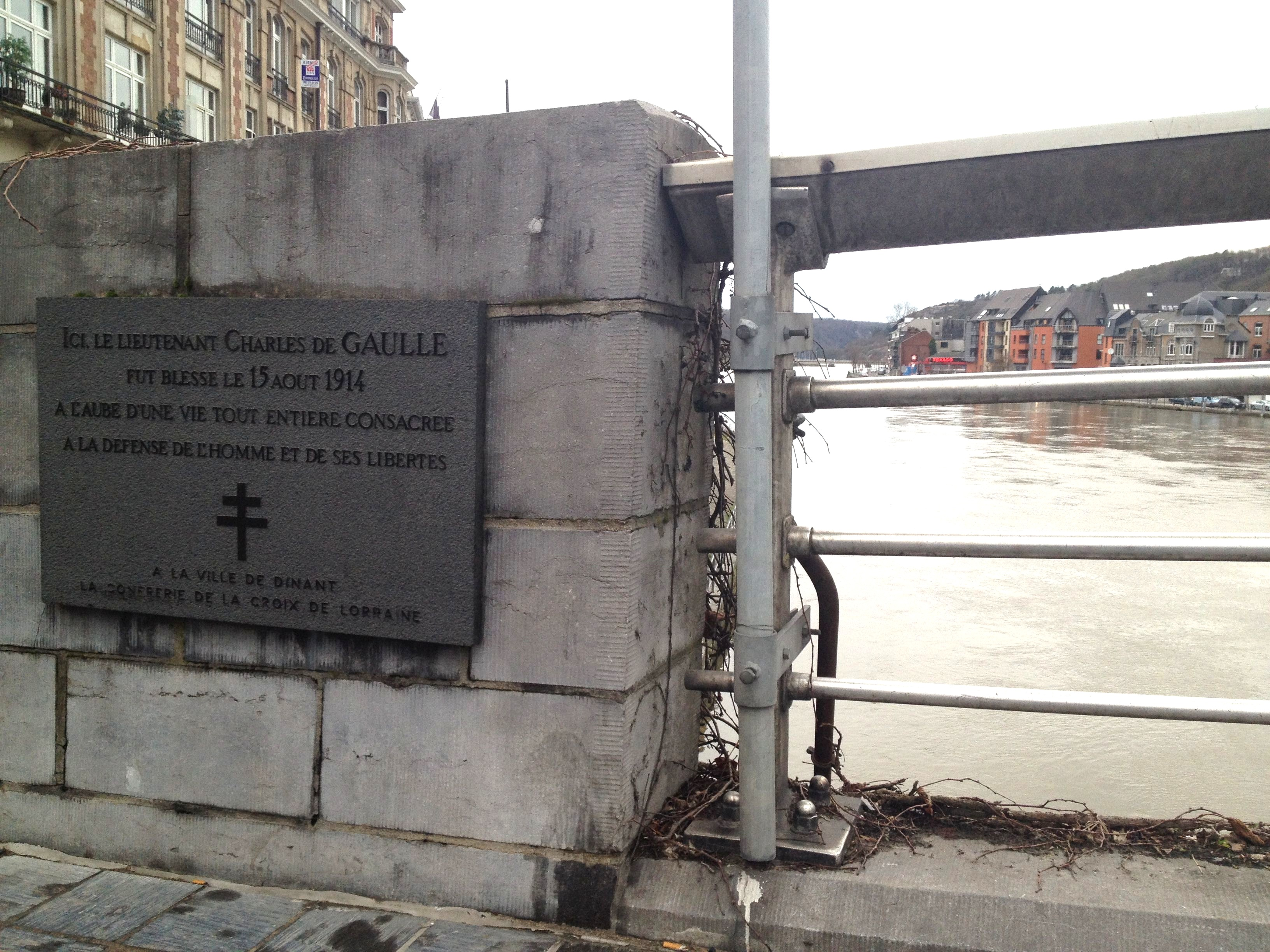 Plaque at Charles de Gaulle bridge in Dinant, where De Gaulle got wounded on 15th August 1914.